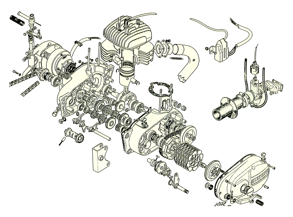 Bultaco engine exploded view scanned from an old Steve's Bultaco catalog.